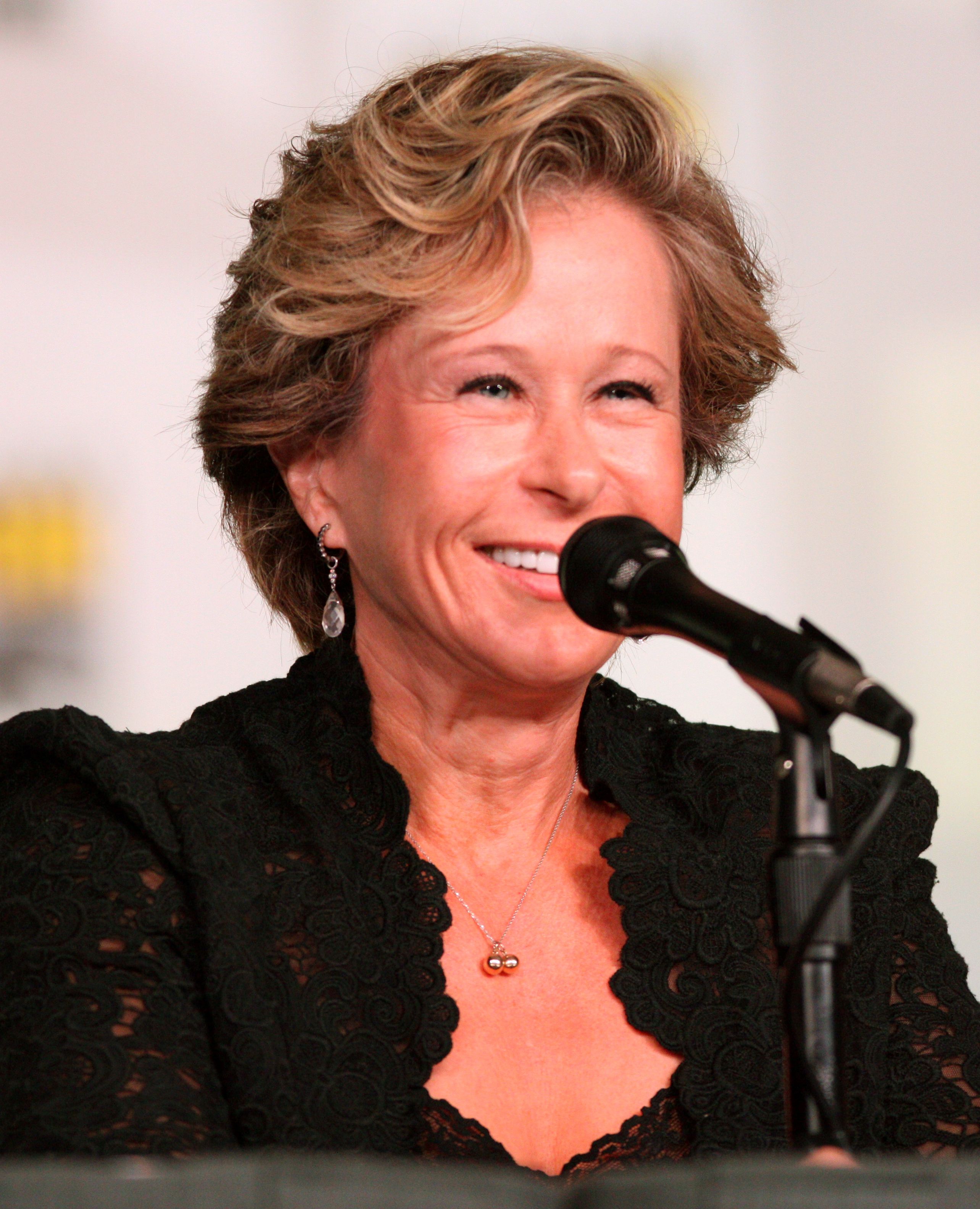 Yeardley Smith at the 2012 Comic-Con in San Diego.